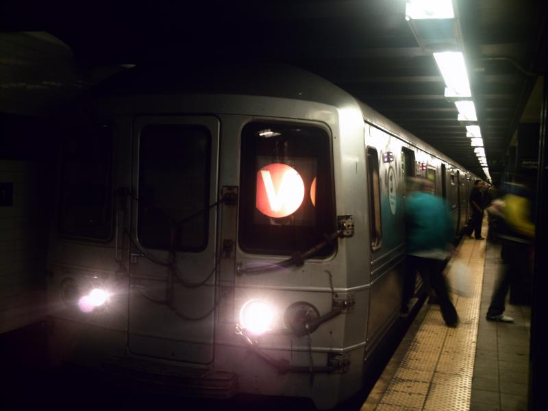 Forest Hills-bound V train of R46s at Roosevelt Avenue-Jackson Heights